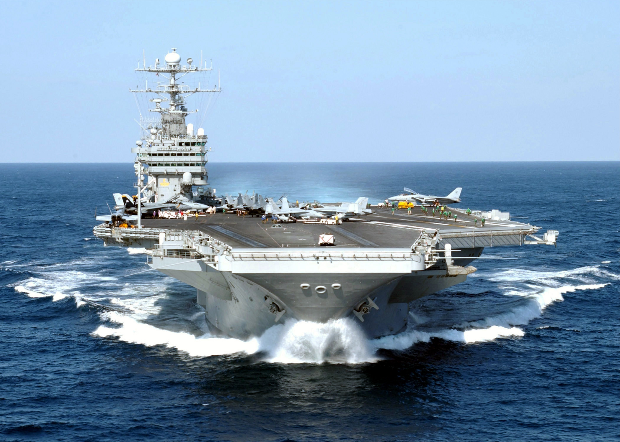 011104-N-6747H-002 The Atlantic Ocean (Nov. 4, 2001) -- USS George Washington (CVN 73) makes a speed run in the Atlantic Ocean while conducting carrier qualifications. U.S. Navy photo by Photographer's Mate 3rd Class Heather Hess. (RELEASED)